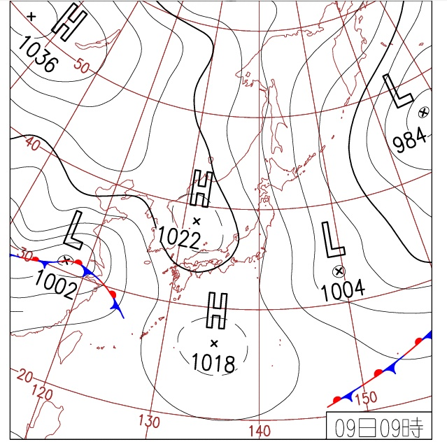 Weather map as of 9 a.m of April 9, 2019(JST)